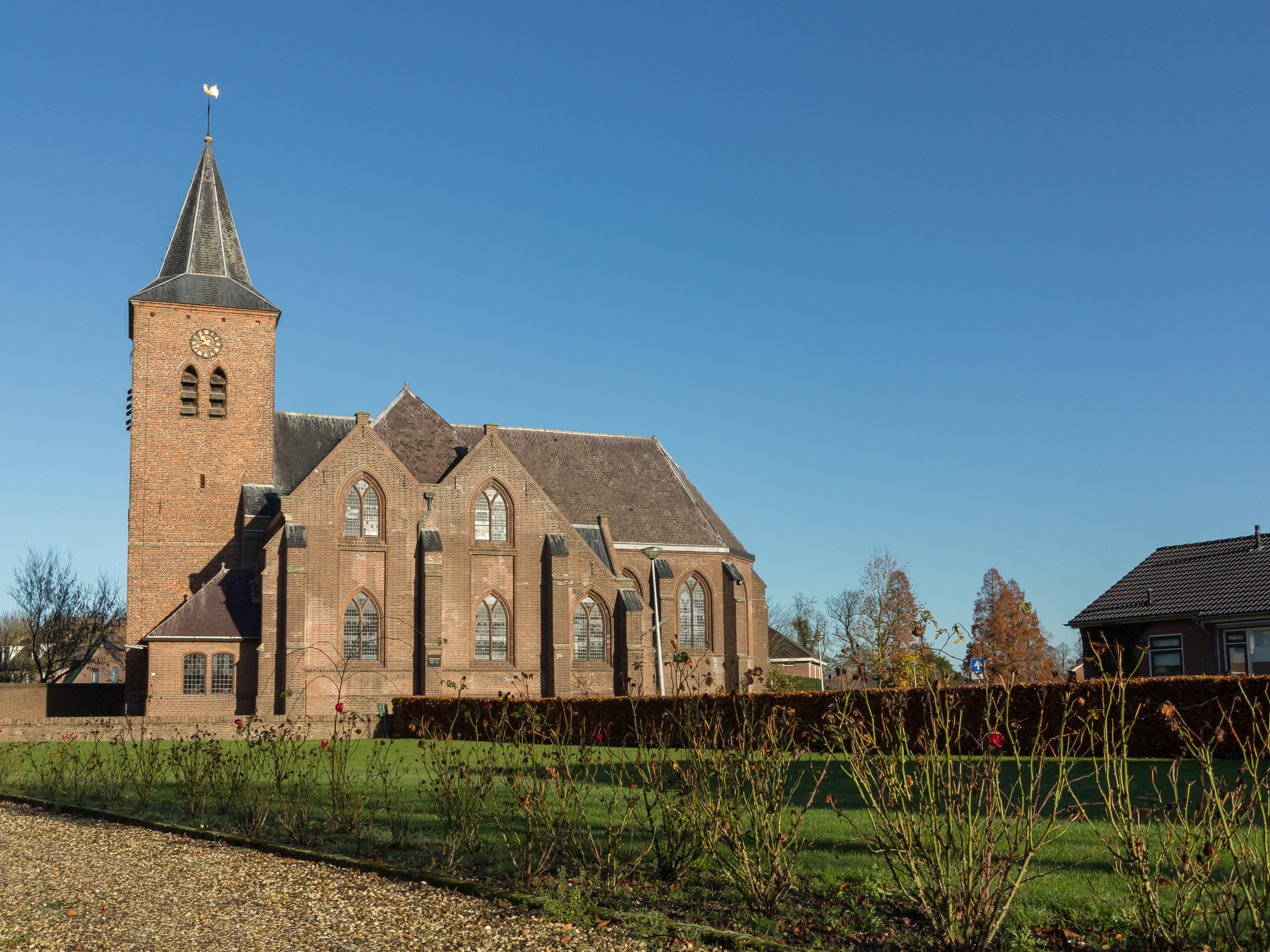 Zetten, church: de Dorpskerk